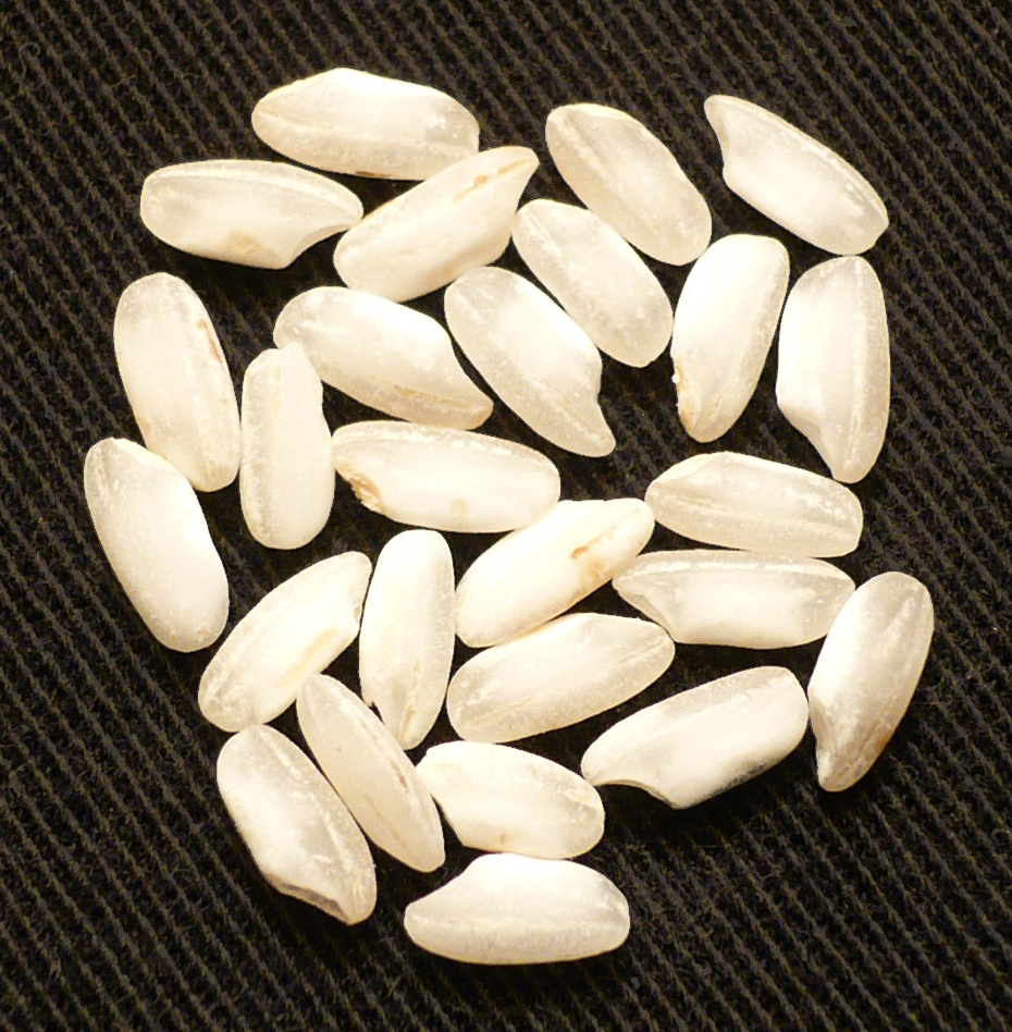 Grains of Carnaroli rice, produced in Italy. Photo taken in Kent, Ohio with a Panasonic Lumix digital camera (model DMC-LS75). The package (Roland brand superfino Carnaroli rice, 1 kg) was purchased at an Italian grocery store in Tallmadge, Ohio, United States.